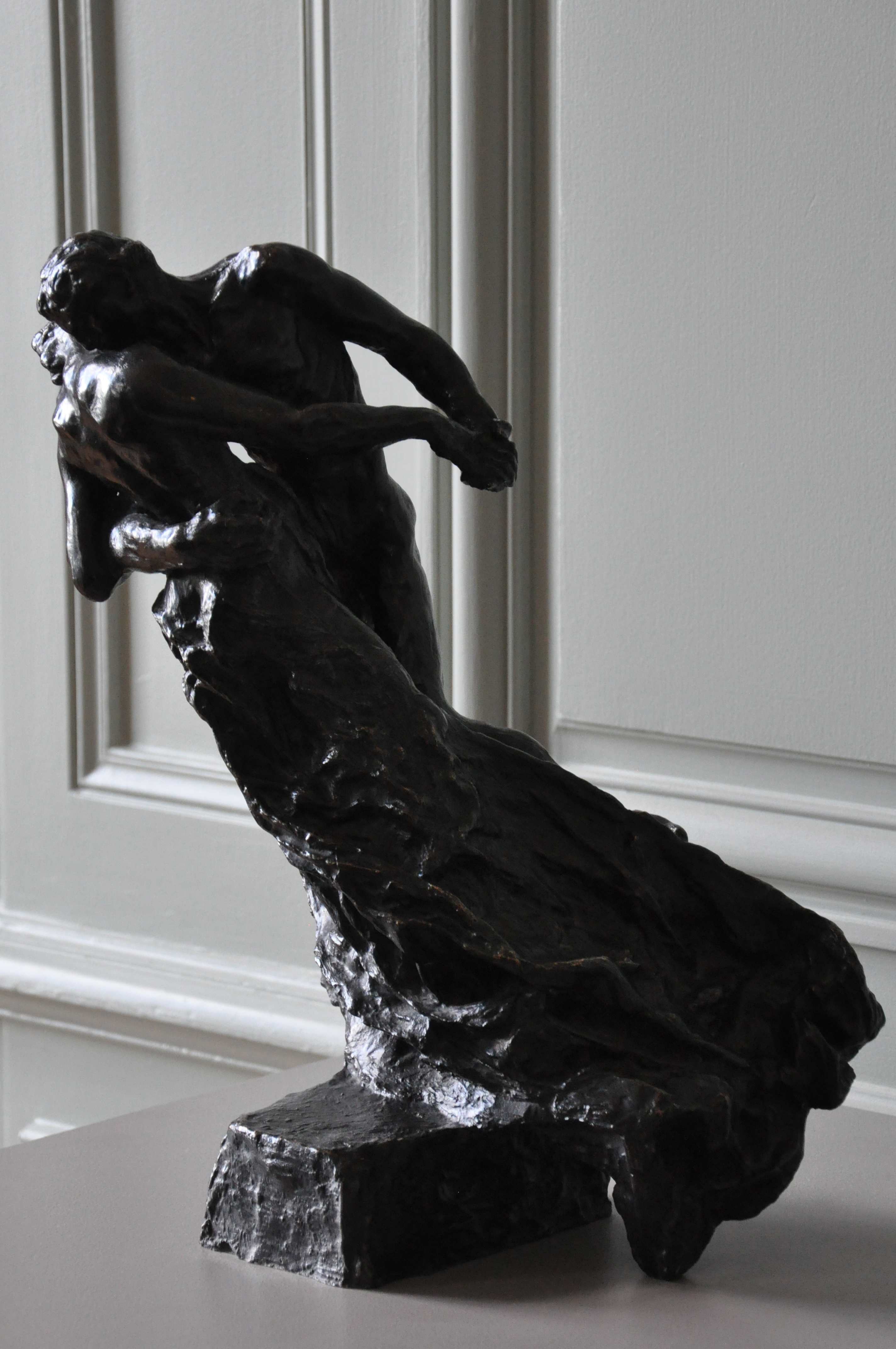 Waltz, sculpture of Camille Claudel (1893) in Musée Rodin (Paris)